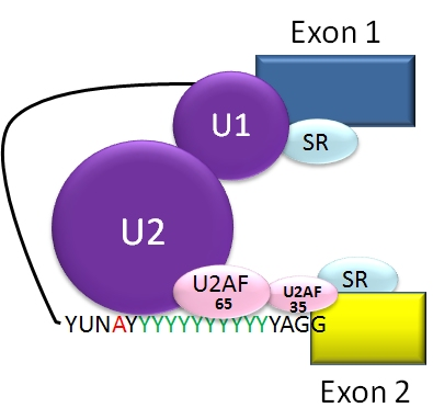 Spliceosome assembly: the A complex. SR proteins bind to splicing enhancer sites, and assist with the binding of the U1 snRNP to the donor site and the U2AF proteins to the acceptor site and polypyrimidine tract. The U2 snRNP binds to the branch point.